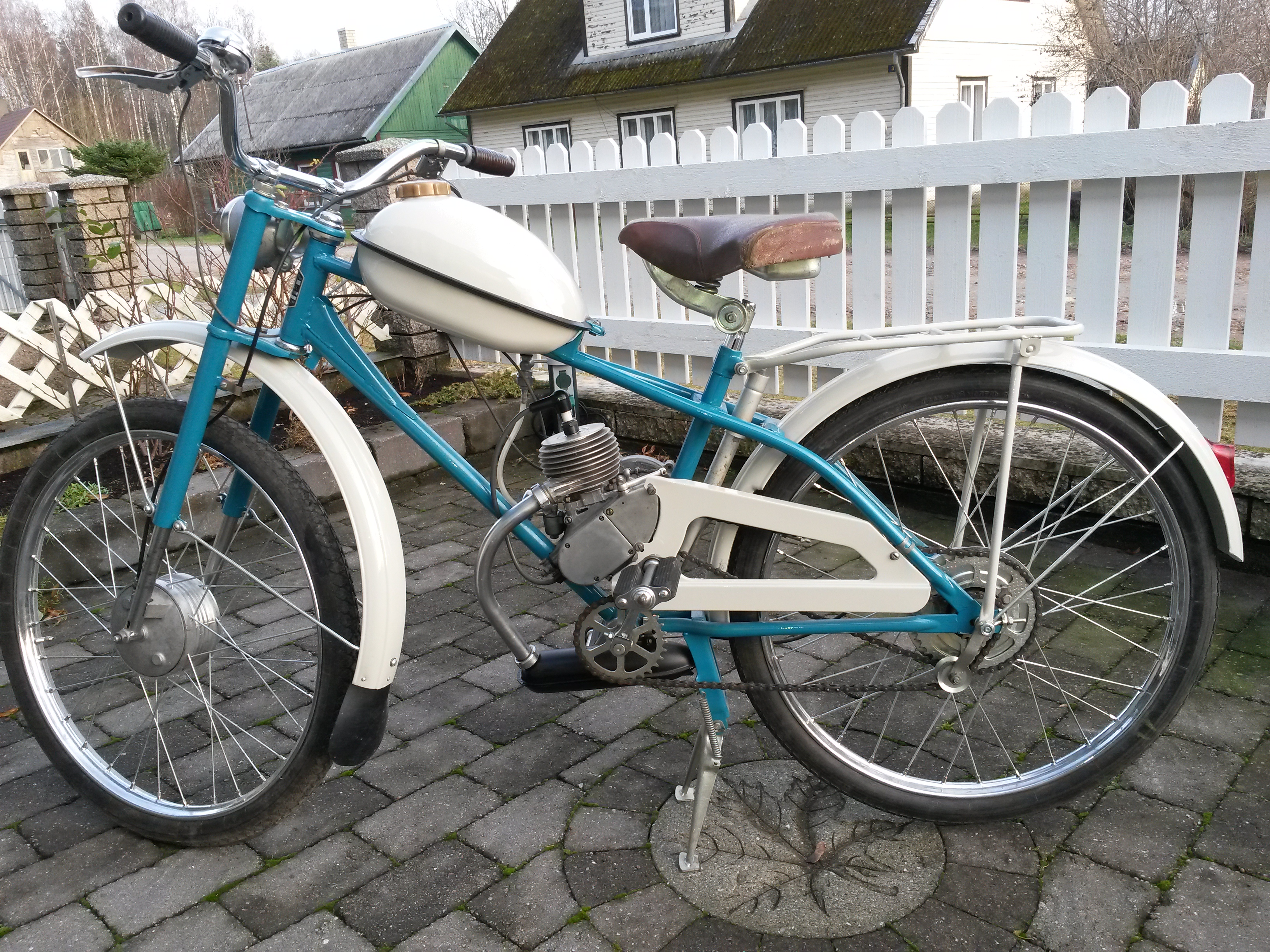 USSR moped Riga-5